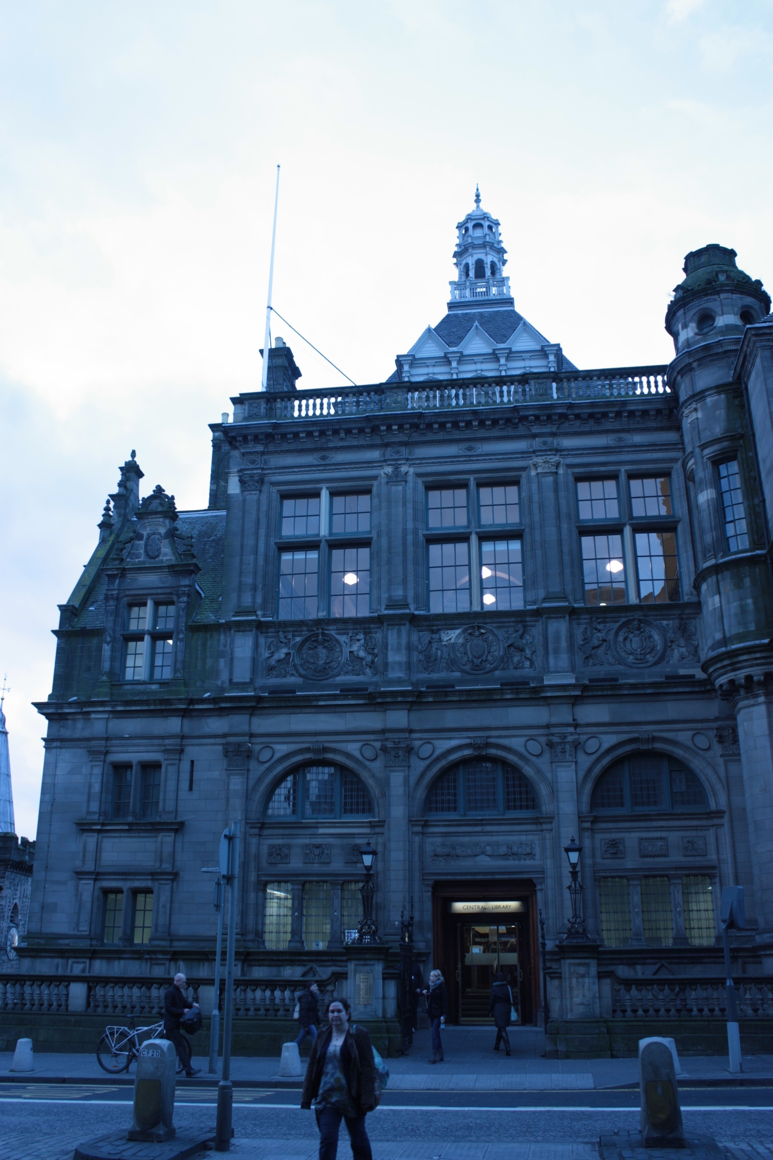 Central Library on George IV Bridge by George Washington Browne